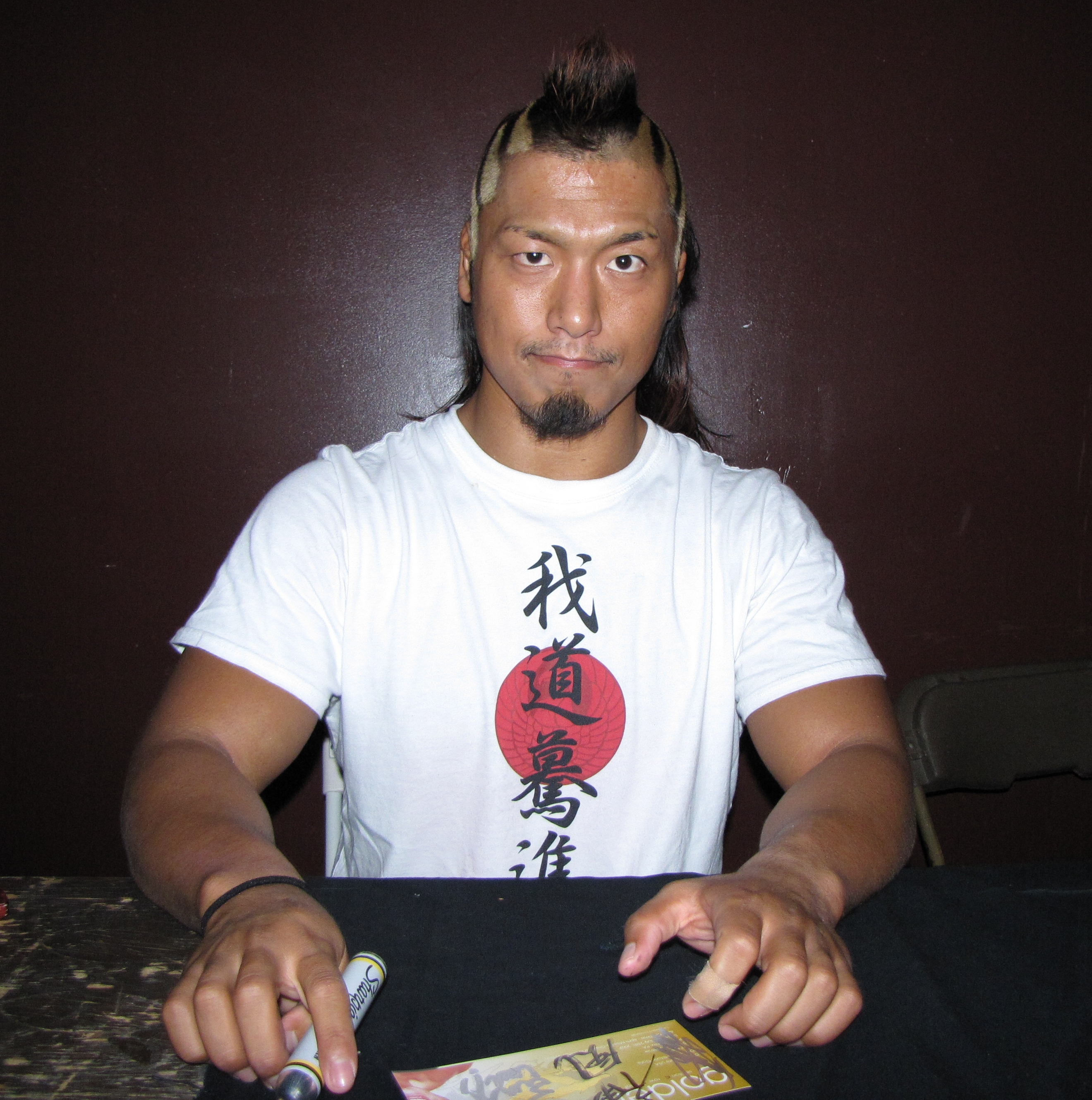 Shingo Takagi at DGUSA's first event, Enter The Dragon.